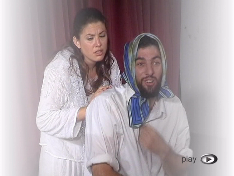 The two actors of the Technion Theater on stage, playing The Dybbuk for Two, based on Anski's play.